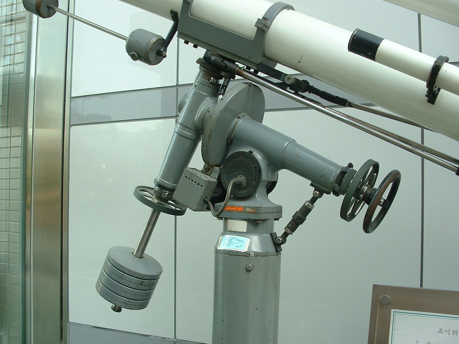 5-inch German equatorial mount in Taipei Astronomical Museum 中文（台灣）: 五吋折光赤道儀，主鏡125mm，焦距1800mm；導星鏡80mm折光鏡，焦距1200mm，找星鏡40mm折光鏡，主要用來觀測太陽黑子、火星、月掩星。製造業者：日本五藤光學公司。製造年份1971年。